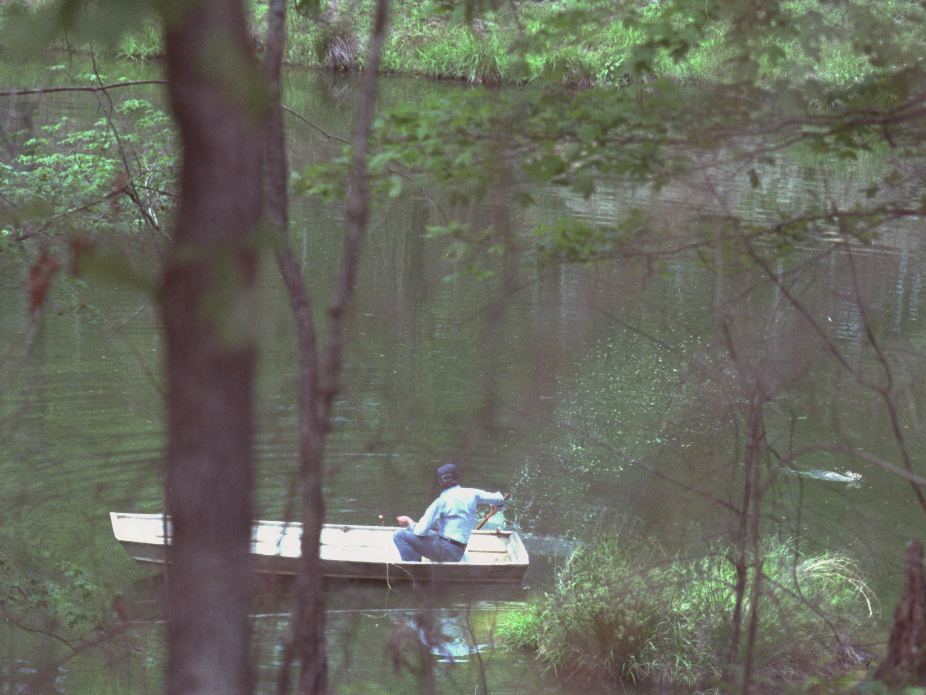 President of the United States Jimmy Carter in a boat in Plains, Georgia, chasing away a swamp rabbit (Sylvilagus aquaticus). This led to the "Jimmy Carter rabbit incident".